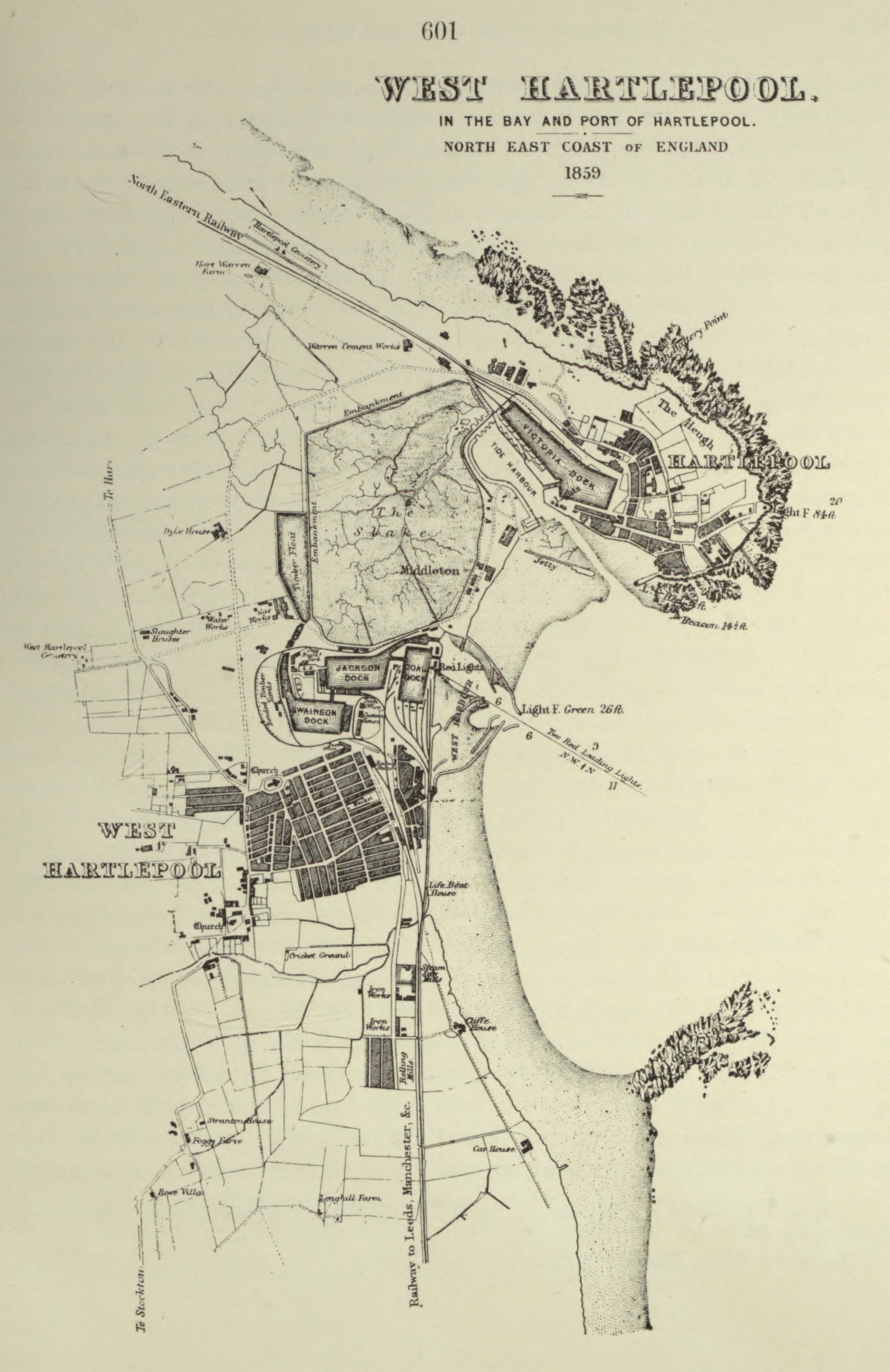 See list of illustrations in souce pages ix to xvi Descriptions are associated with images, also check index for additional text